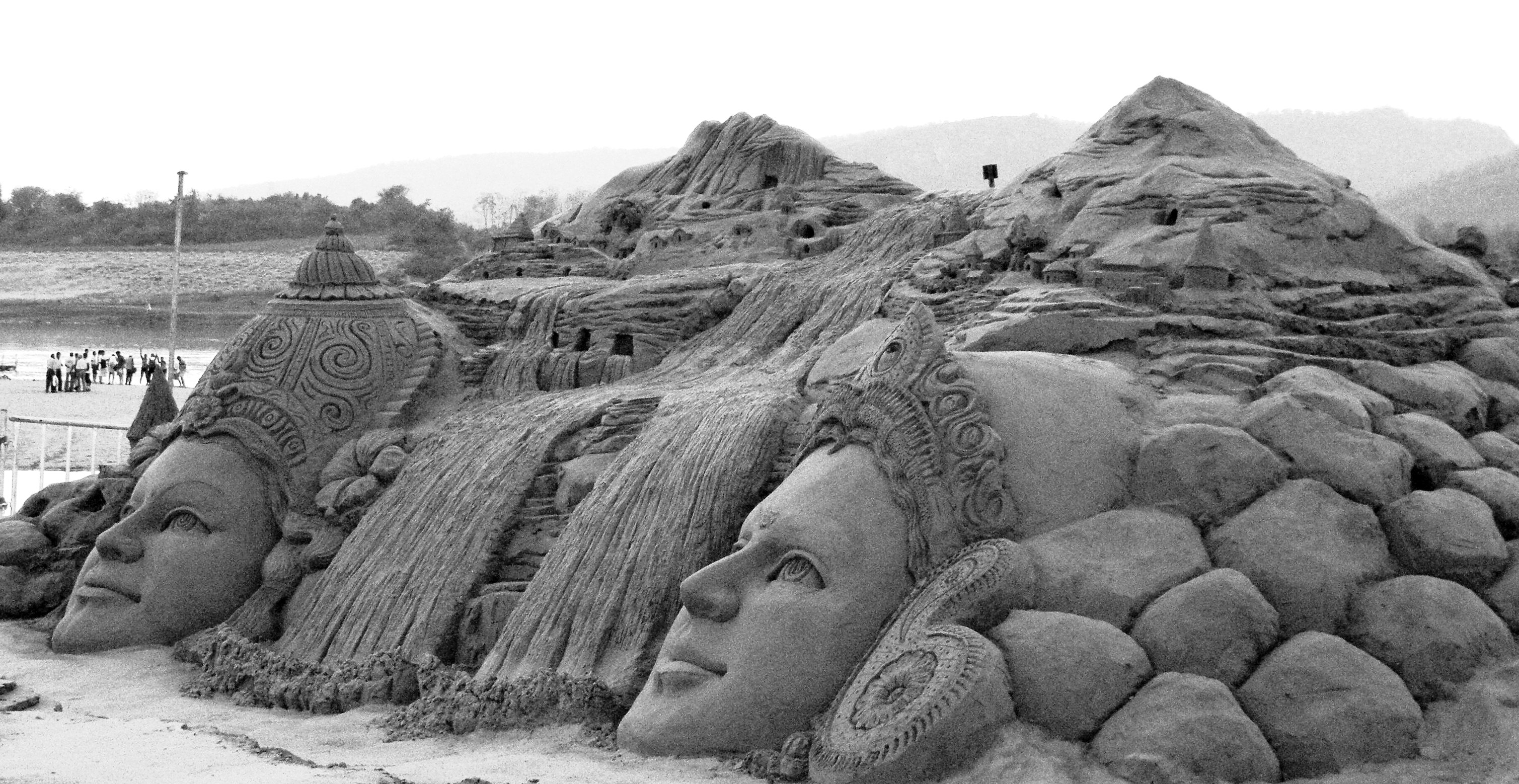 Sand sculpture at Bandrabhan,Hoshangabad by Sudarshan Pattanaik